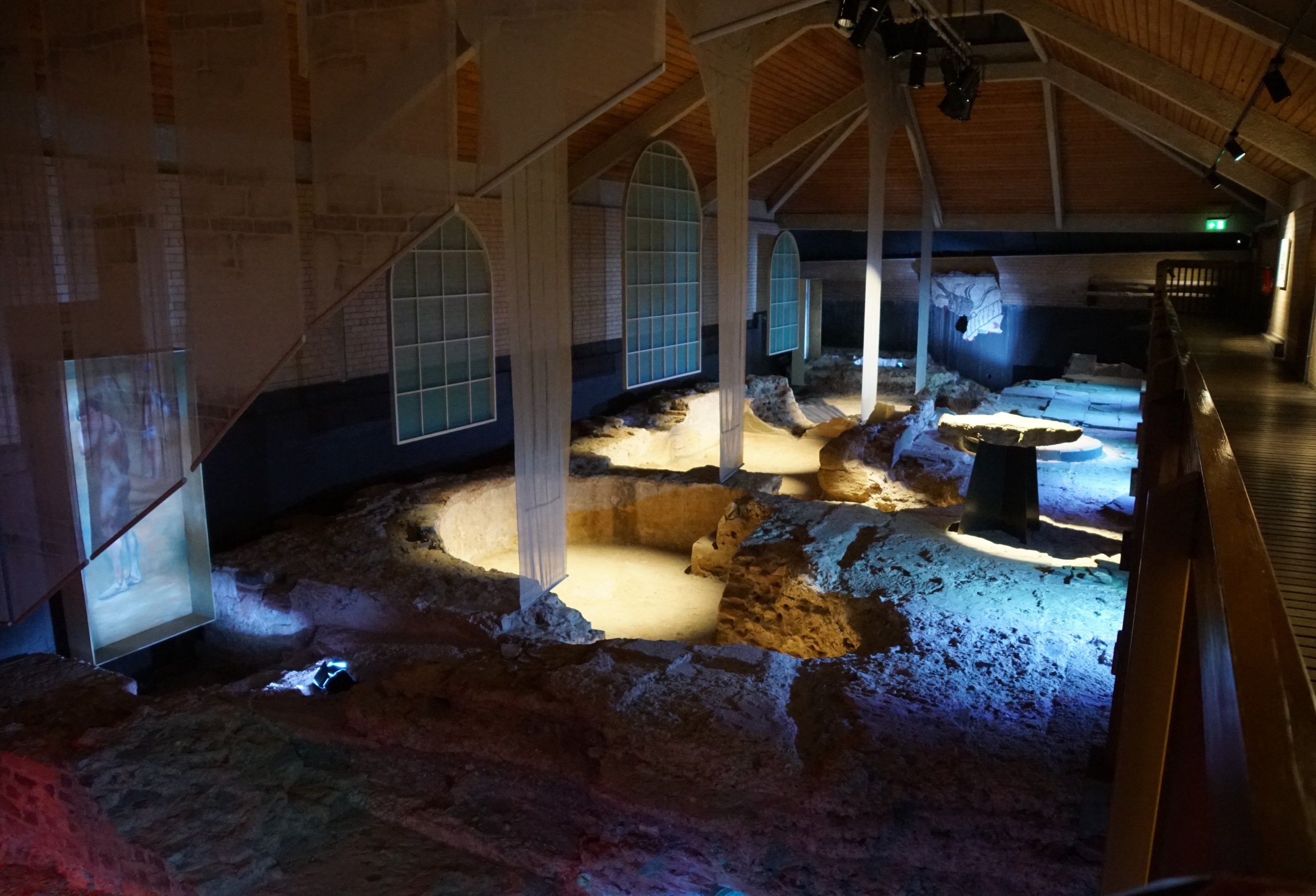 Roman Fortress Baths, Caerleon, Wales, United Kingdom. Frigidarium.